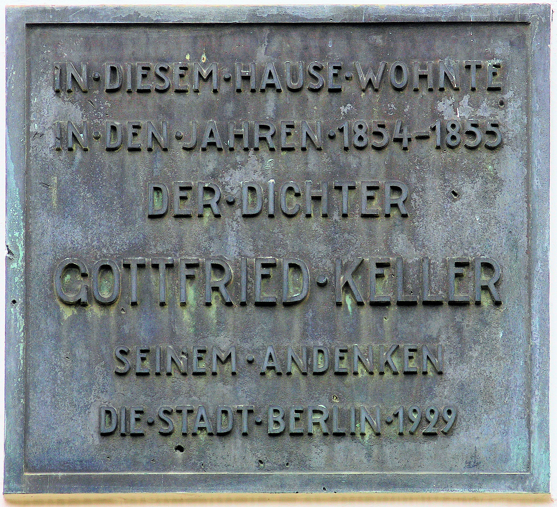 Memorial plaque, Gottfried Keller, Bauhofstraße 2, Berlin-Mitte, Germany Koordinate:52°31′11.9″N 13°23′42.6″E / 52.519972°N 13.395167°E